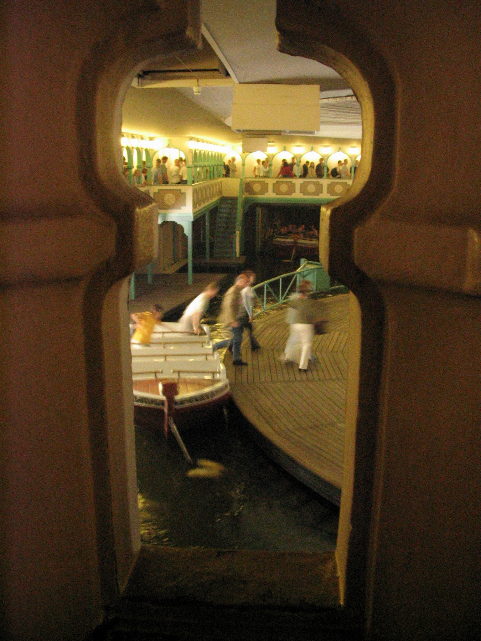 Station of Darkride "Fata Morgana" in Efteling, Netherlands